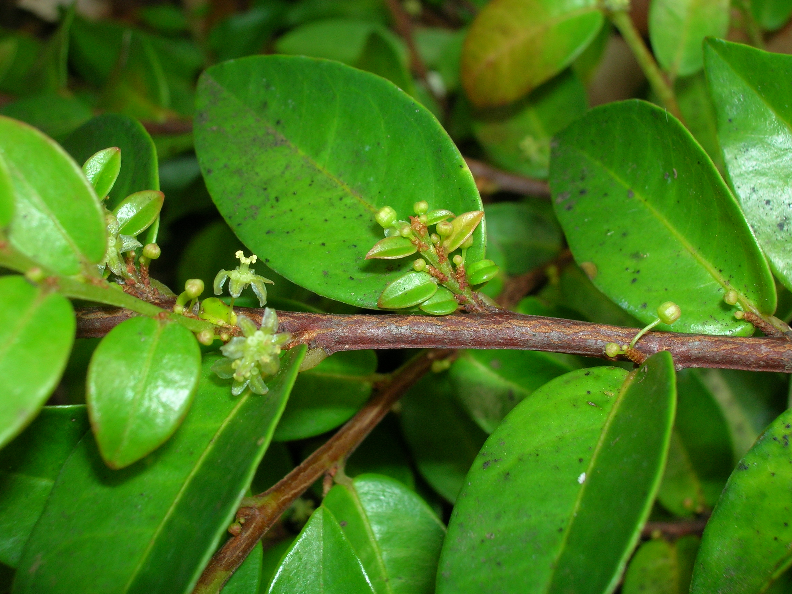 Phyllanthus distichus (flowers from Black Gorge Iao). Location: Maui, Hoolawa Farms